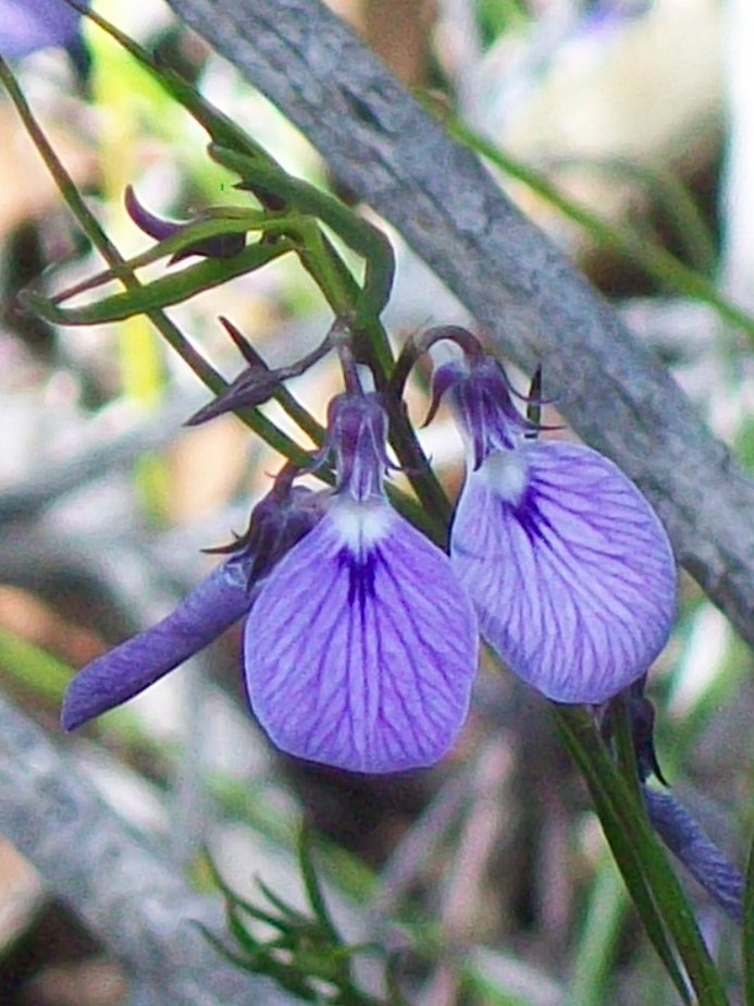 Topham Track, Ku-ring-gai Chase National Park, Australia. Likely to be Hybanthus vernonii as the lower leaves were lanceolate in shape, H. monopetalus has thinner linear leaves above and below